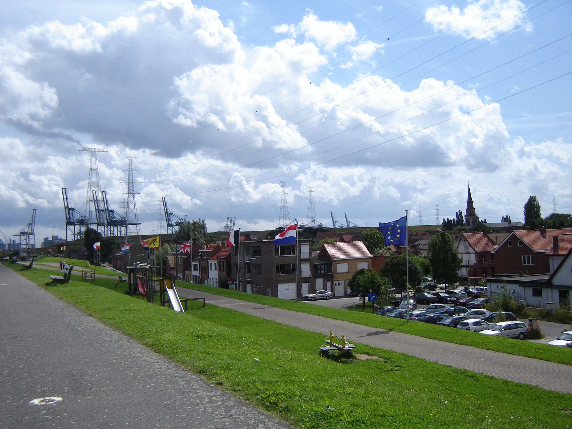 View on the town center of Doel, seen from the banks of the Scheldt. Some abandoned houses can be seen. In the back, dock cranes. Doel, Beveren, East Flanders, Belgium